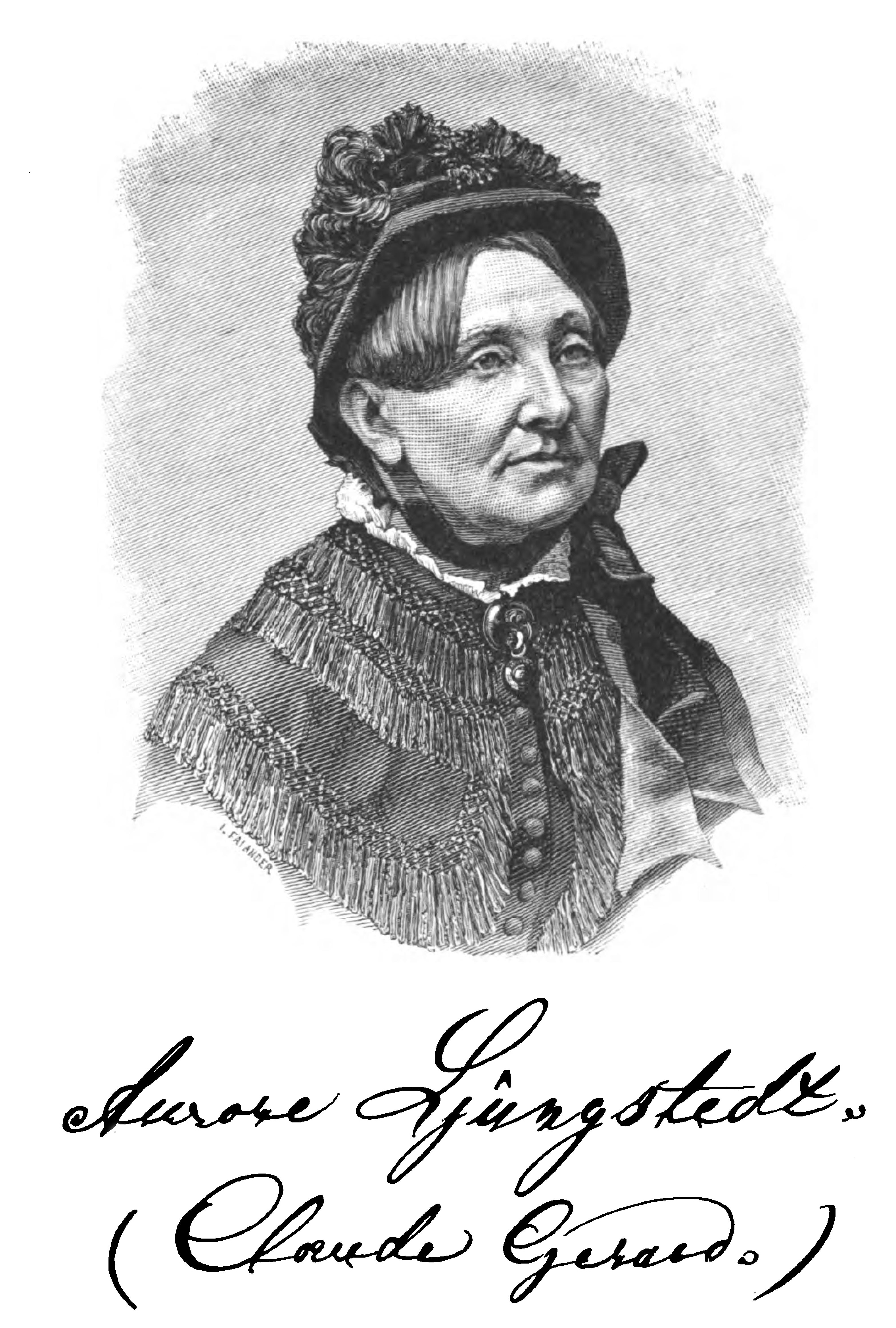 Aurore (or Aurora) Ljungstedt (1821-1908), Swedish author, best known under the pen-name "Claude Gérard".